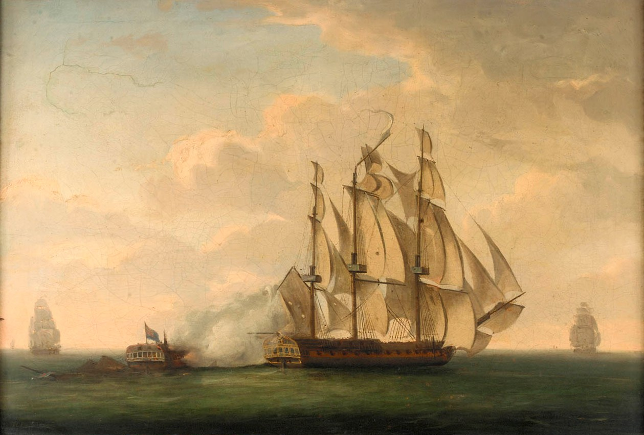 End of the action between HMS Magicienne and La Sibylle, 2 January 1783.